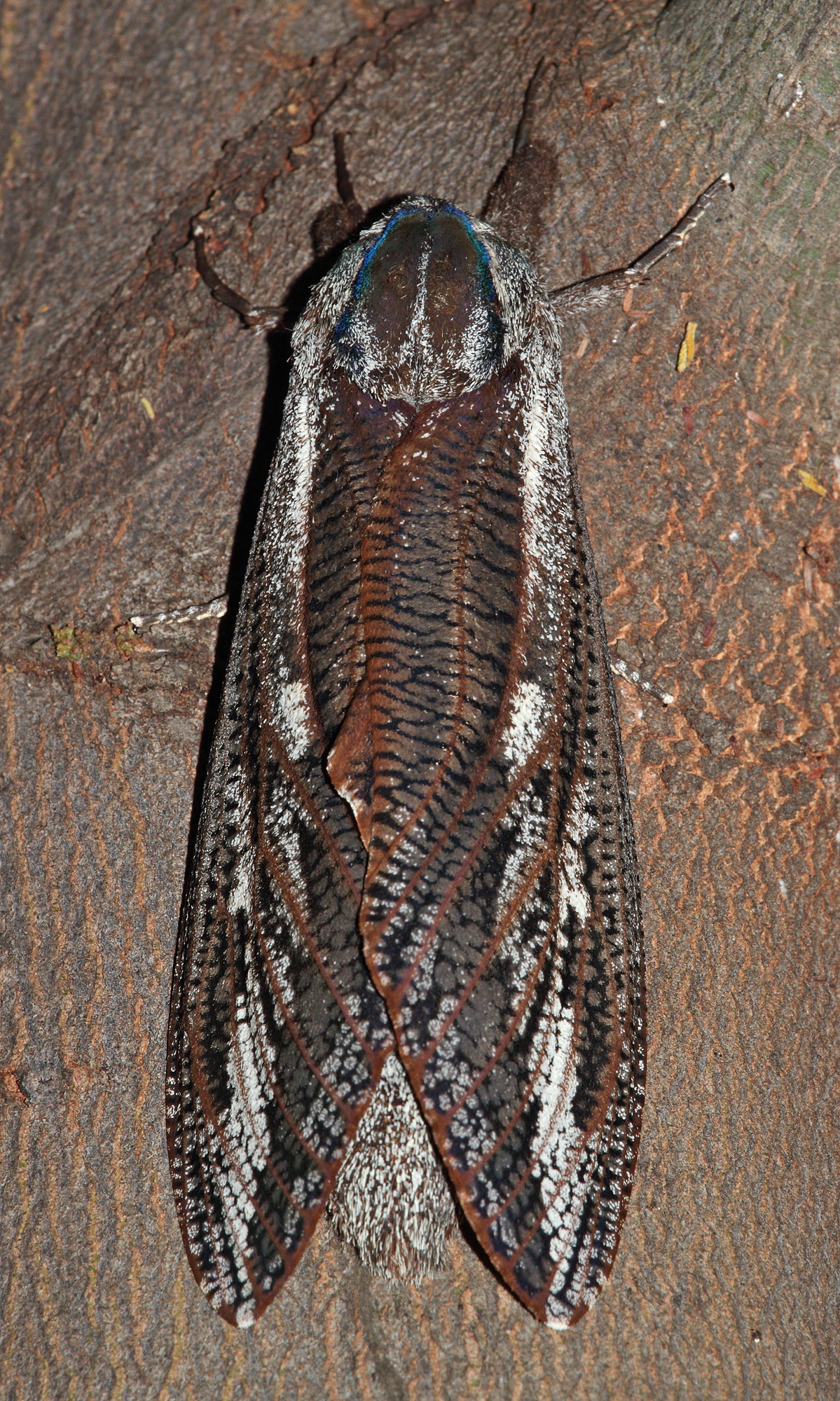 Endoxyla Leucomochla, a large Australian moth whose larvae are known as Witchetty Grubs. On trunk of Black Wattle.